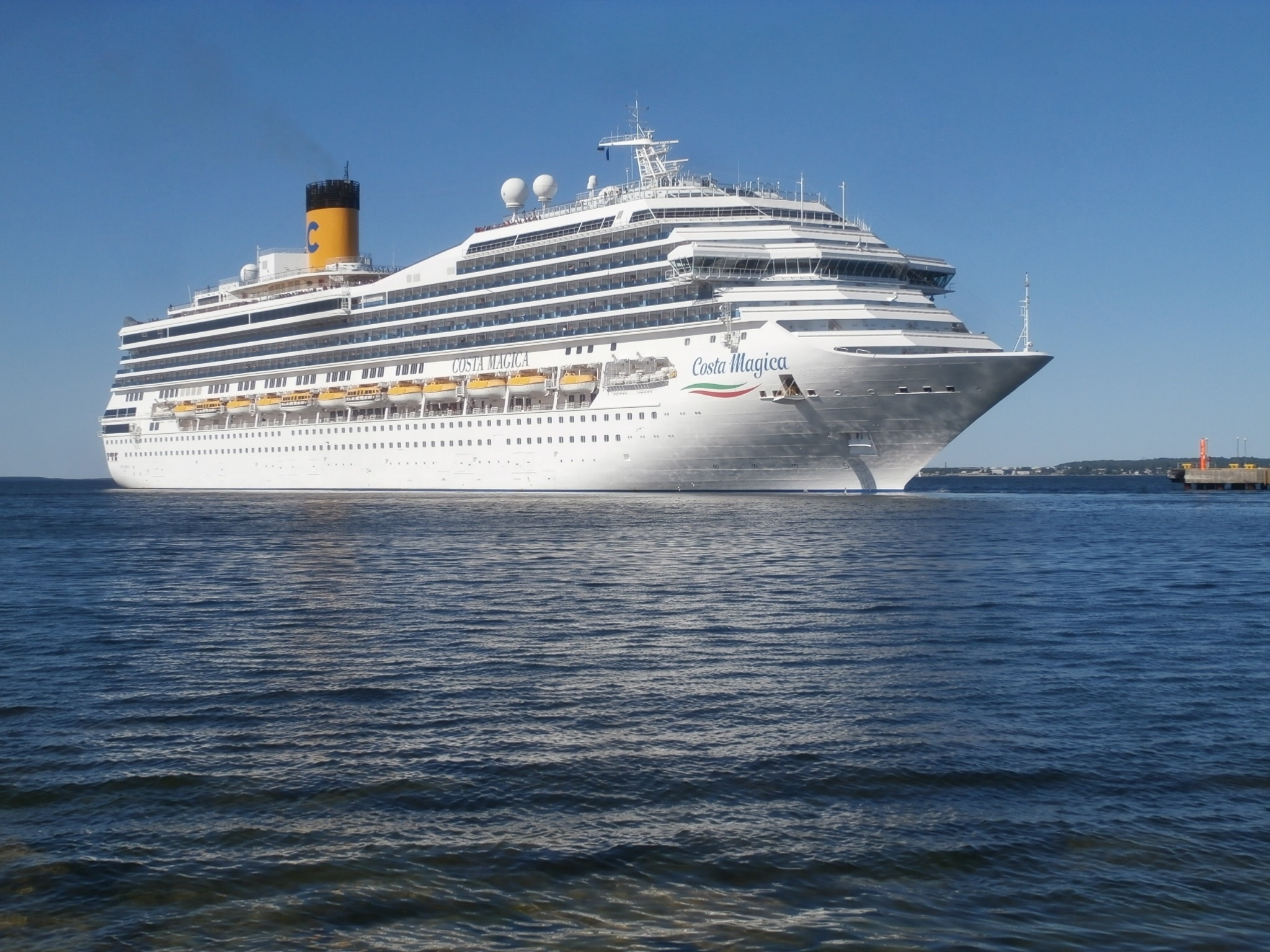 Costa Magica departing Tallinn 31 May 2018 (beacon Vanasadam cruise ship quay Fl(1)W 3s3M (B: 59°27′5.36″N; L: 24°45′45.56″E))